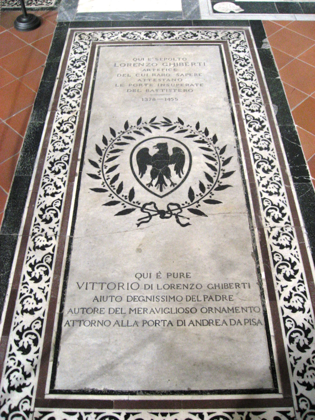 Tomb of Lorenzo Ghiberti.